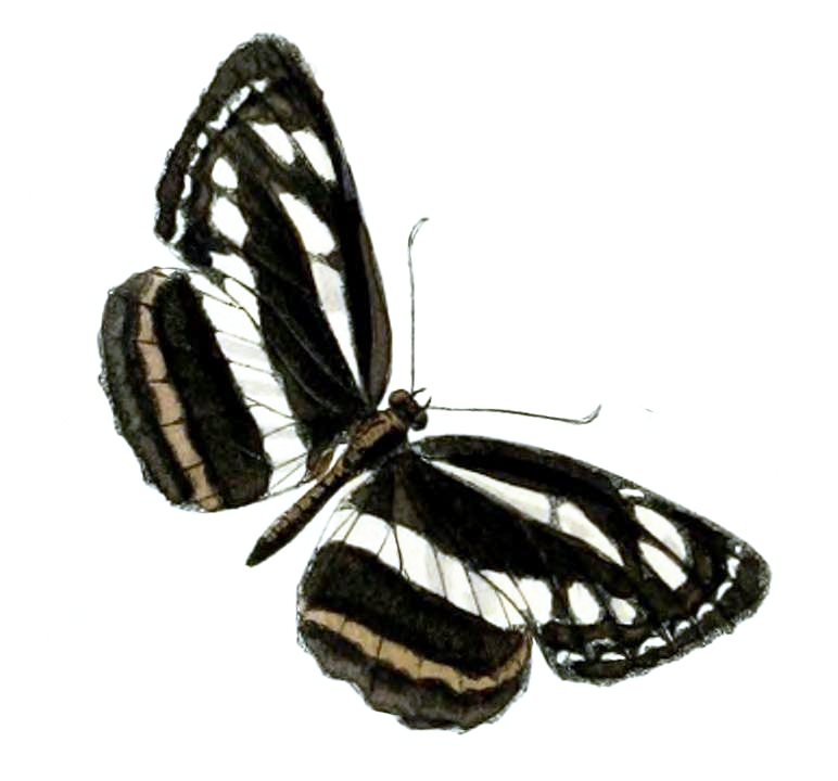 Clear Sailer, from N India, upperside of male